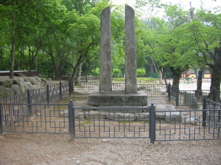 Dangganjiju (flag poles) located at Geumsansa temple, Gimje city, North Jeolla province (Jeollabuk-do), South Korea. They were used to inform people of the location of the temple.